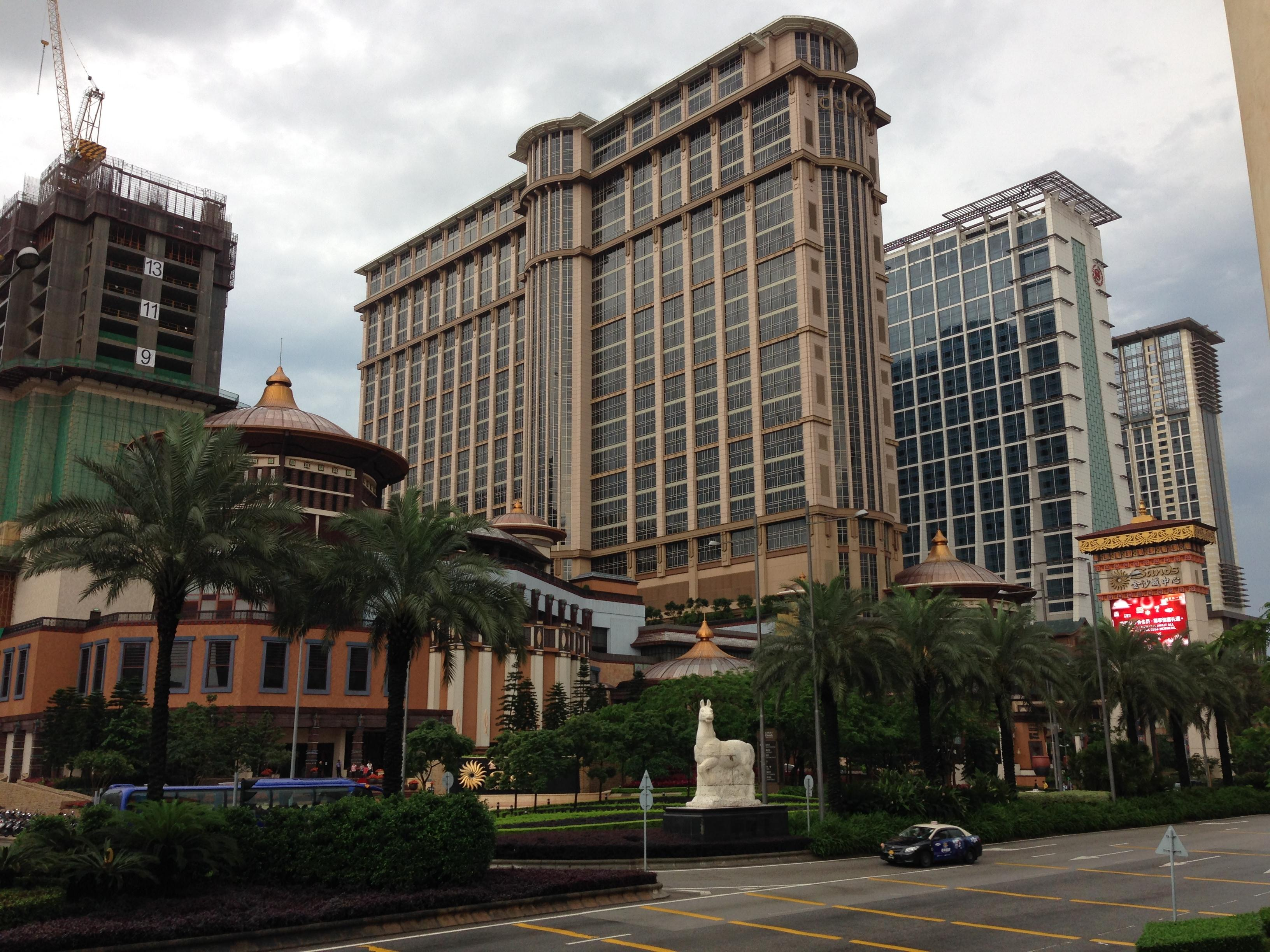 The Shangri-La Hotels and Resorts Macau